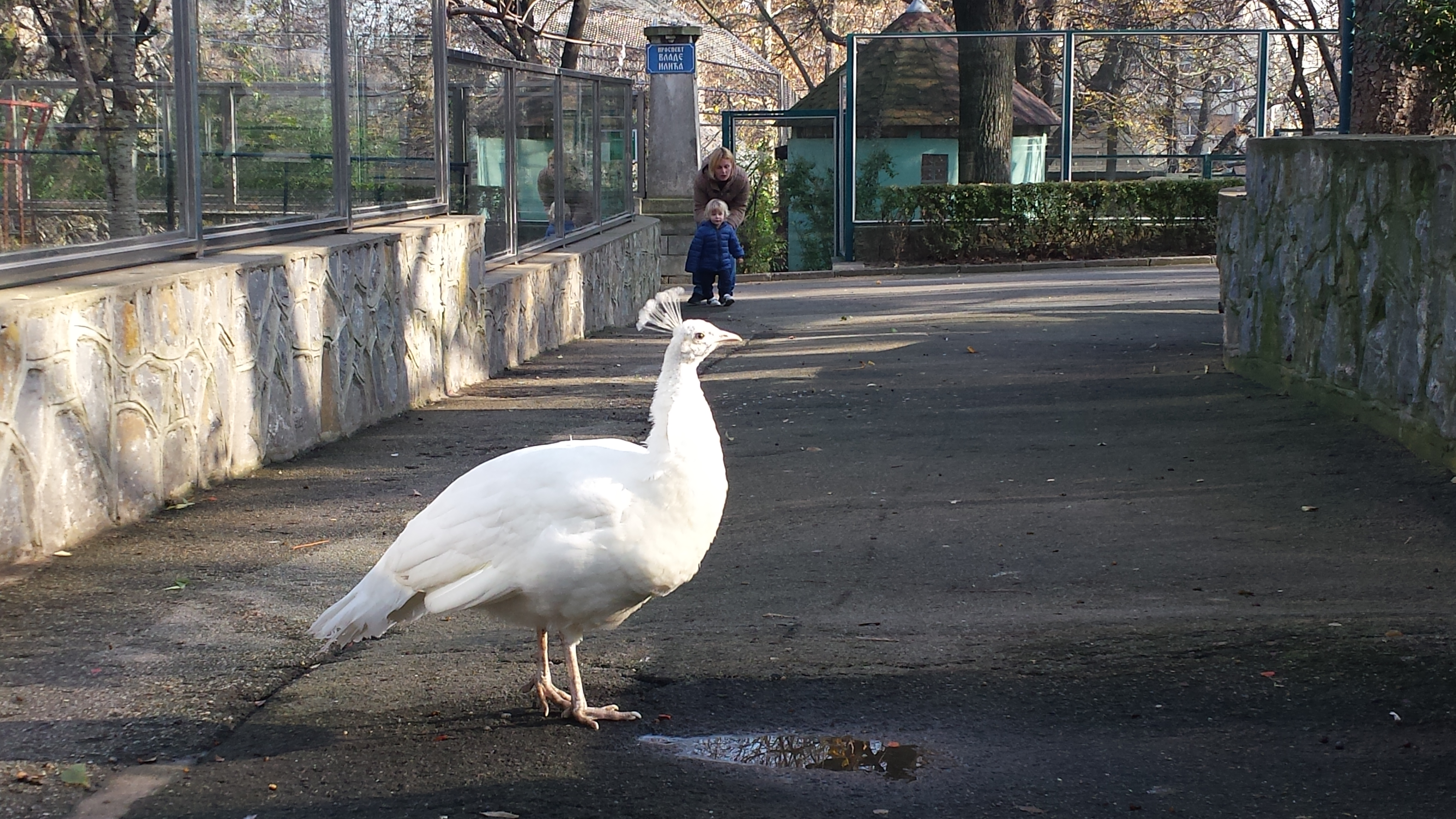 The Indian peafowl or blue peafowl (Pavo cristatus), Albinism, Belgrade, Zoo (IN A zoological garden or zoological park)